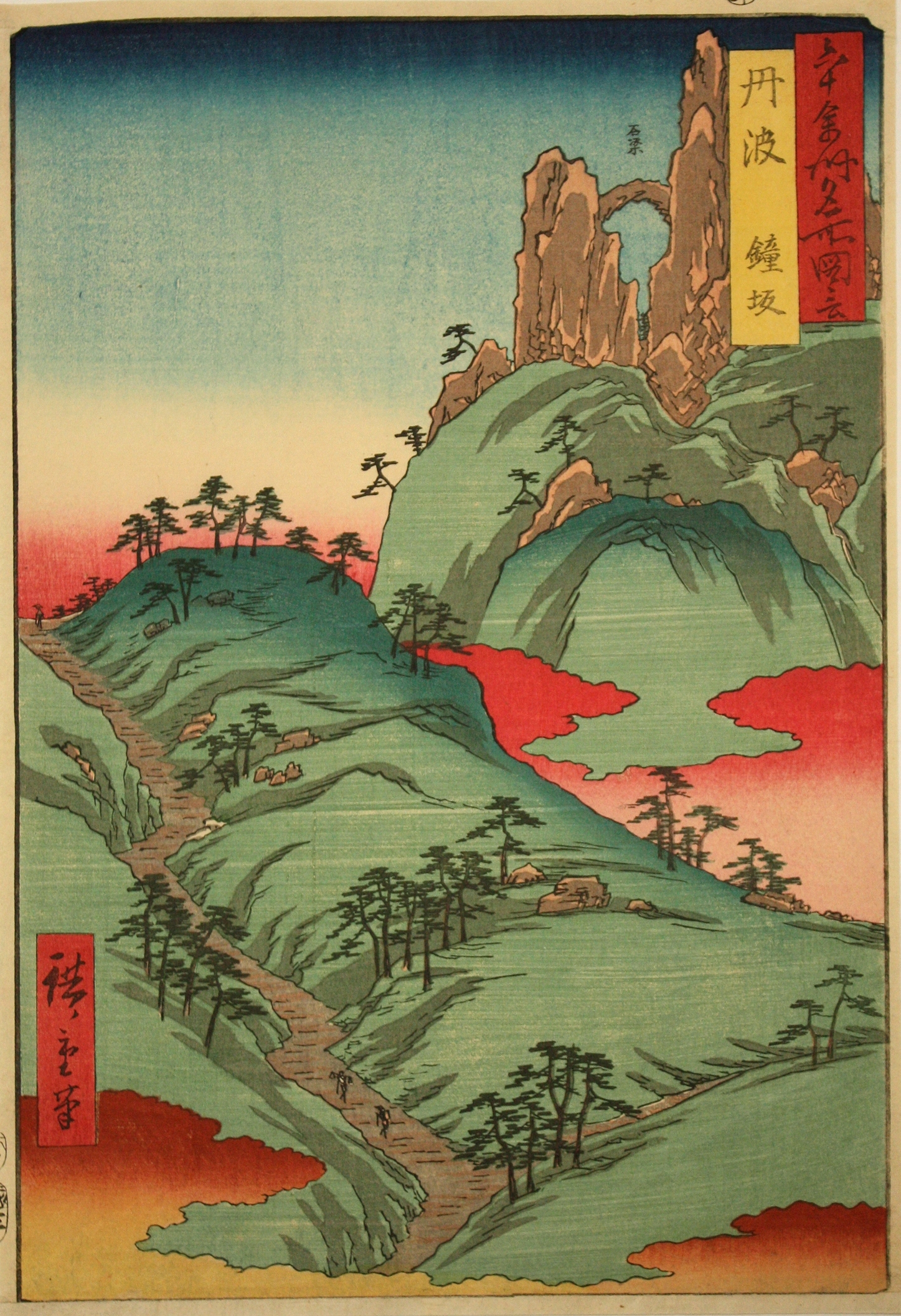 Tanba Kanesaka of the Famous Scenes of the Sixty States.